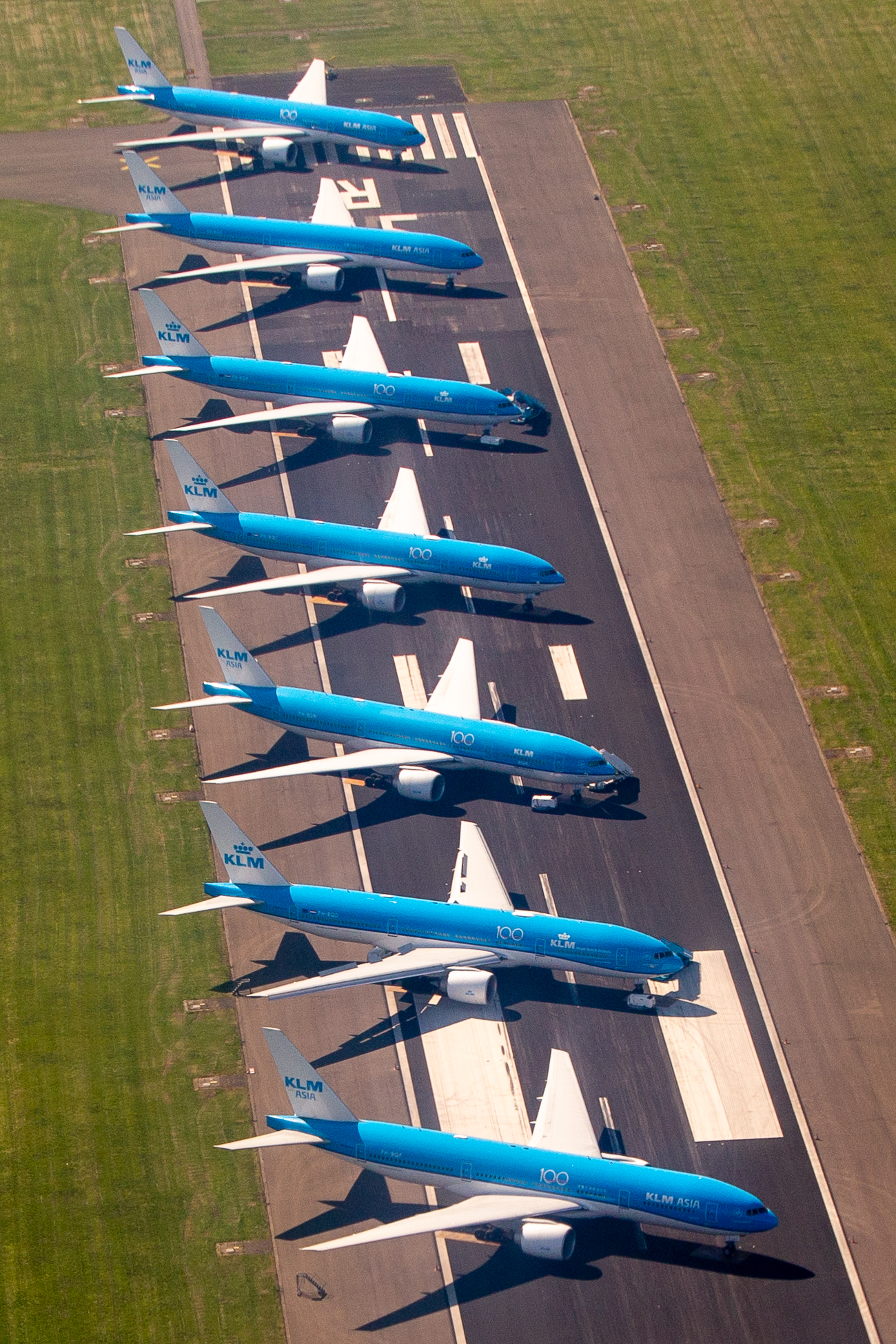 Since most flights are cancelled, and therefor many are not in the air or on smaller destination airfields, new parking places need to be created during the corona crisis.